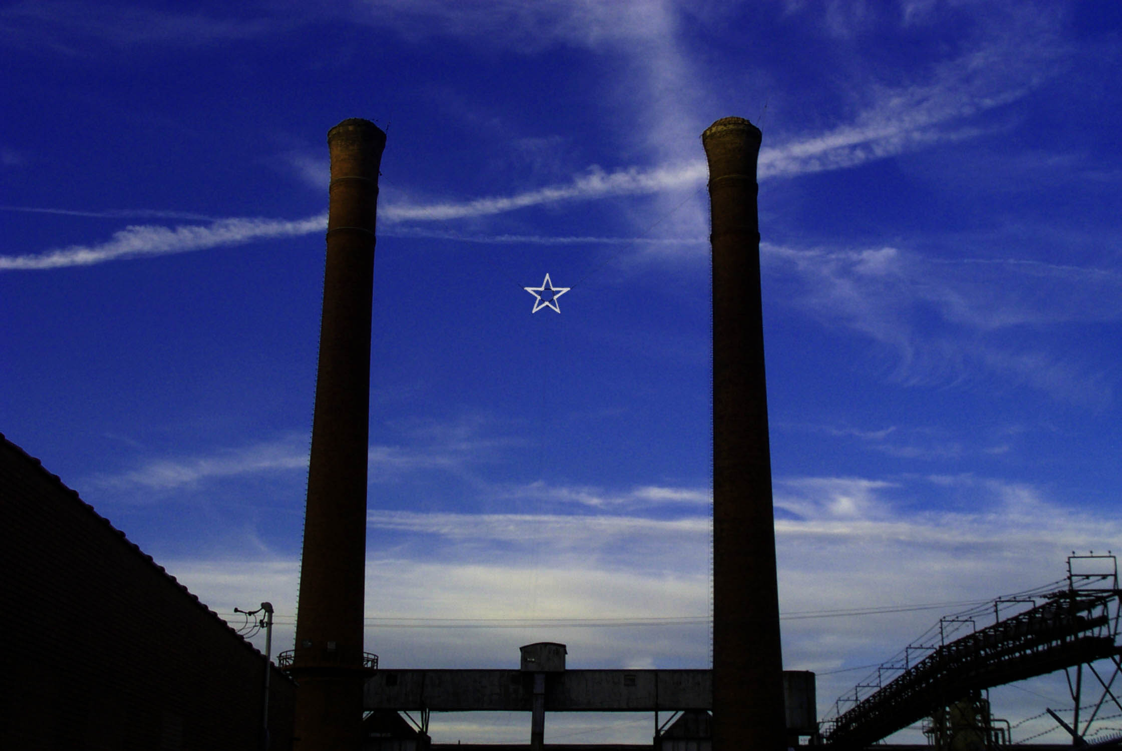 A photo of the Christmas star at the old Lindale Mill. The photo was taken around Christmas in 2003. Since the lights were not illluminated until after dark, I added them with Photoshop. The photo was taken at twilight from the 1st Street gate to the property